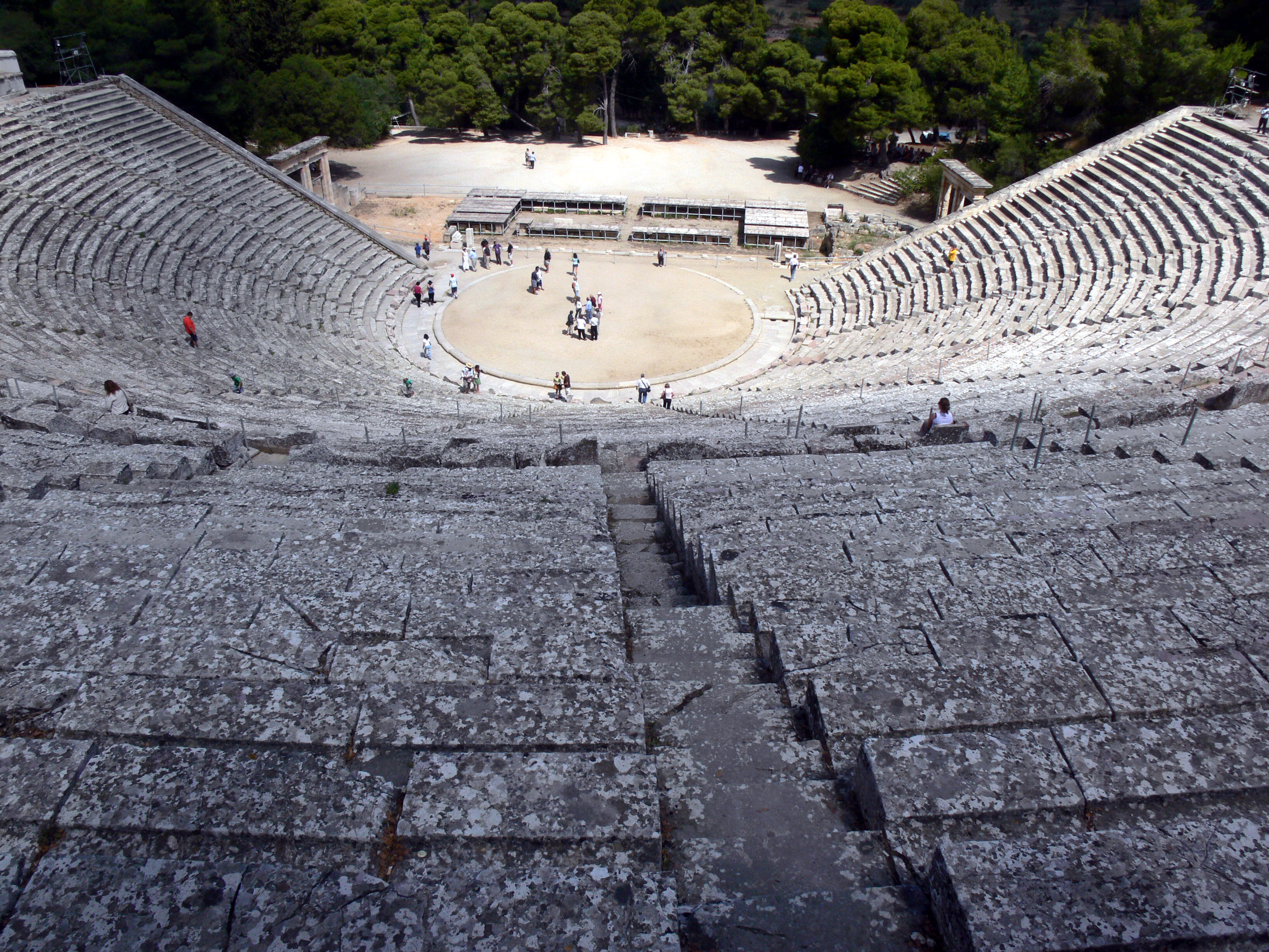 Theater in Epidaurus